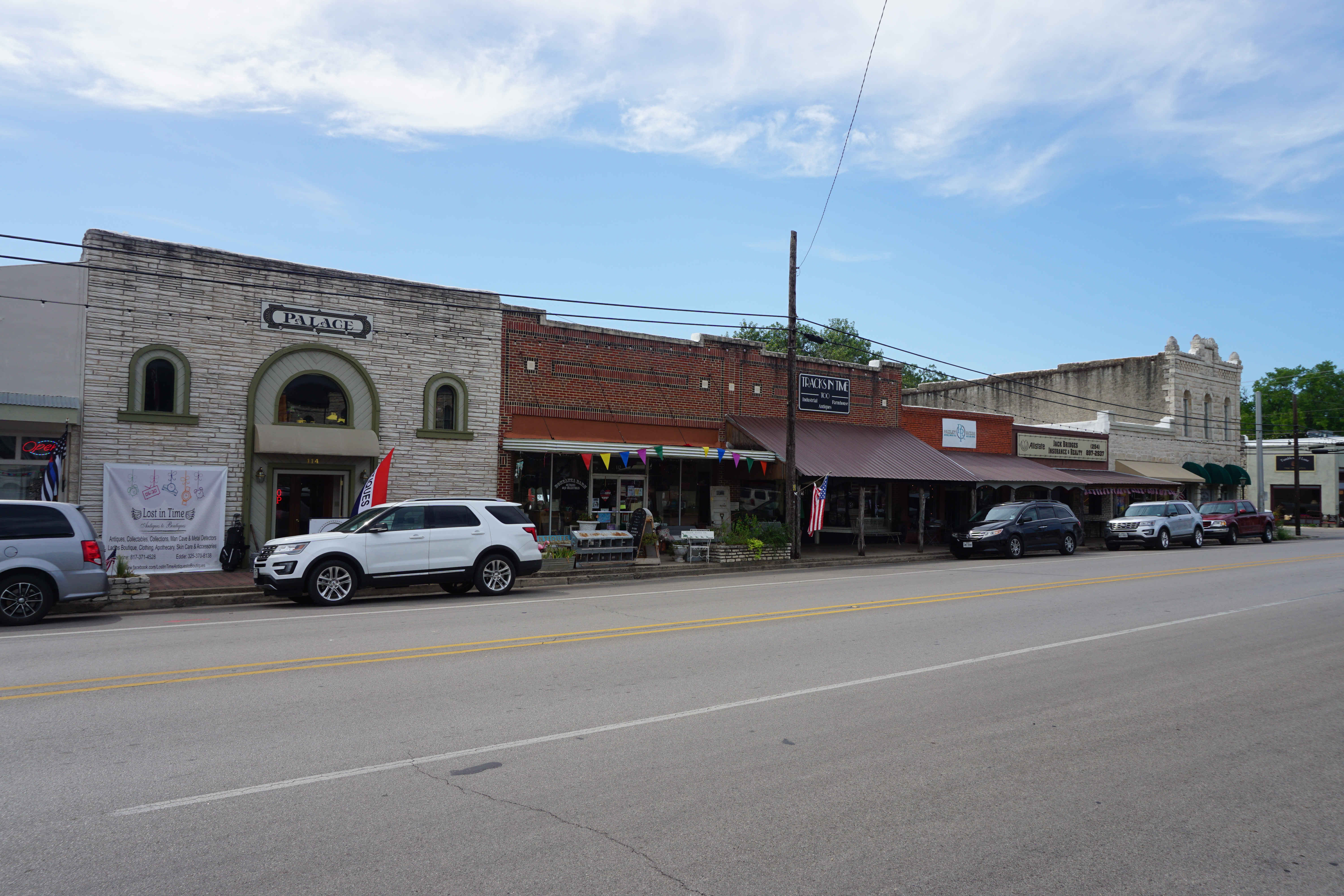 Northeast Barnard Street in Glen Rose, Texas (United States).